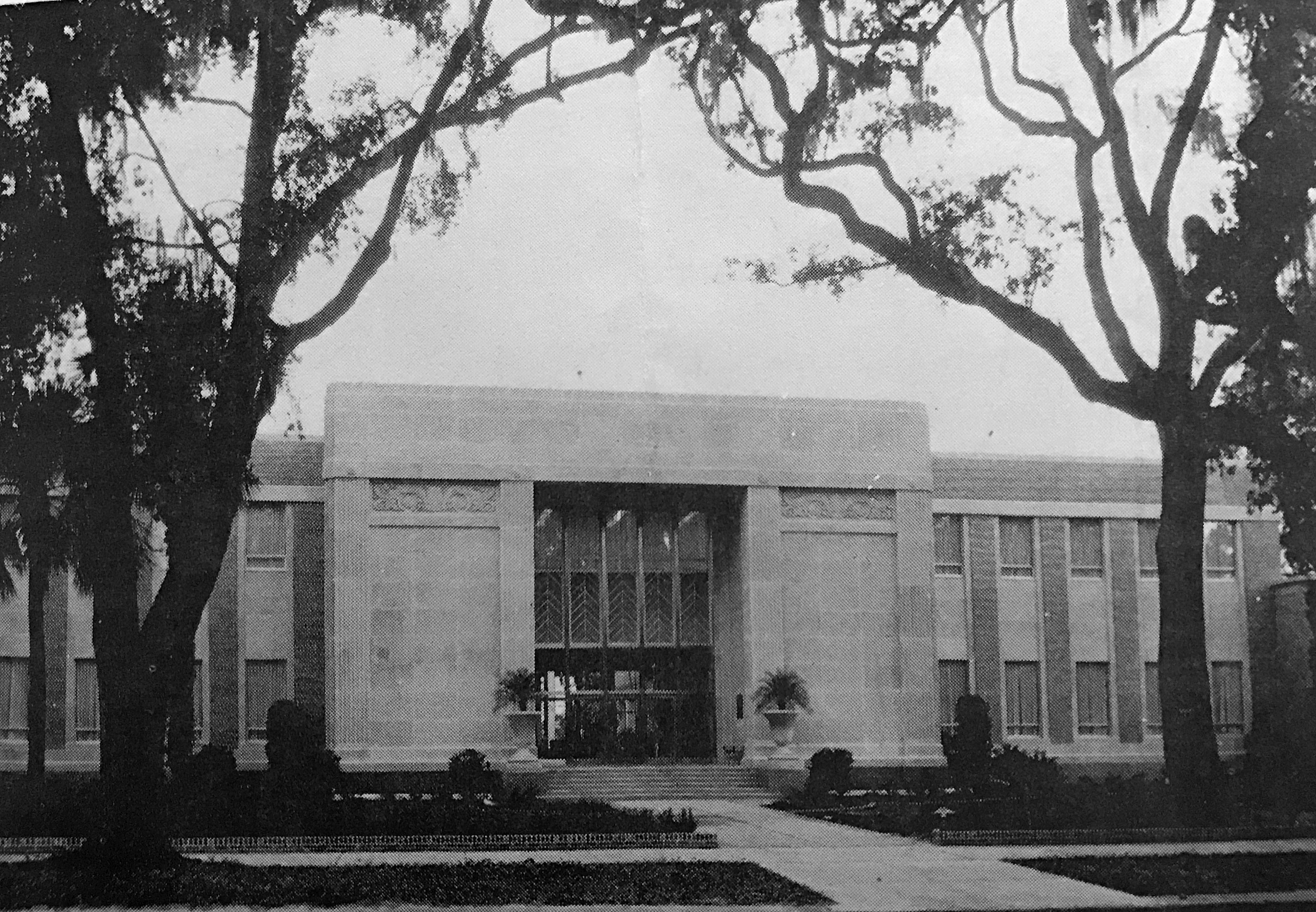 A photograph of the original Cummer Museum building, from a 1965 brochure.